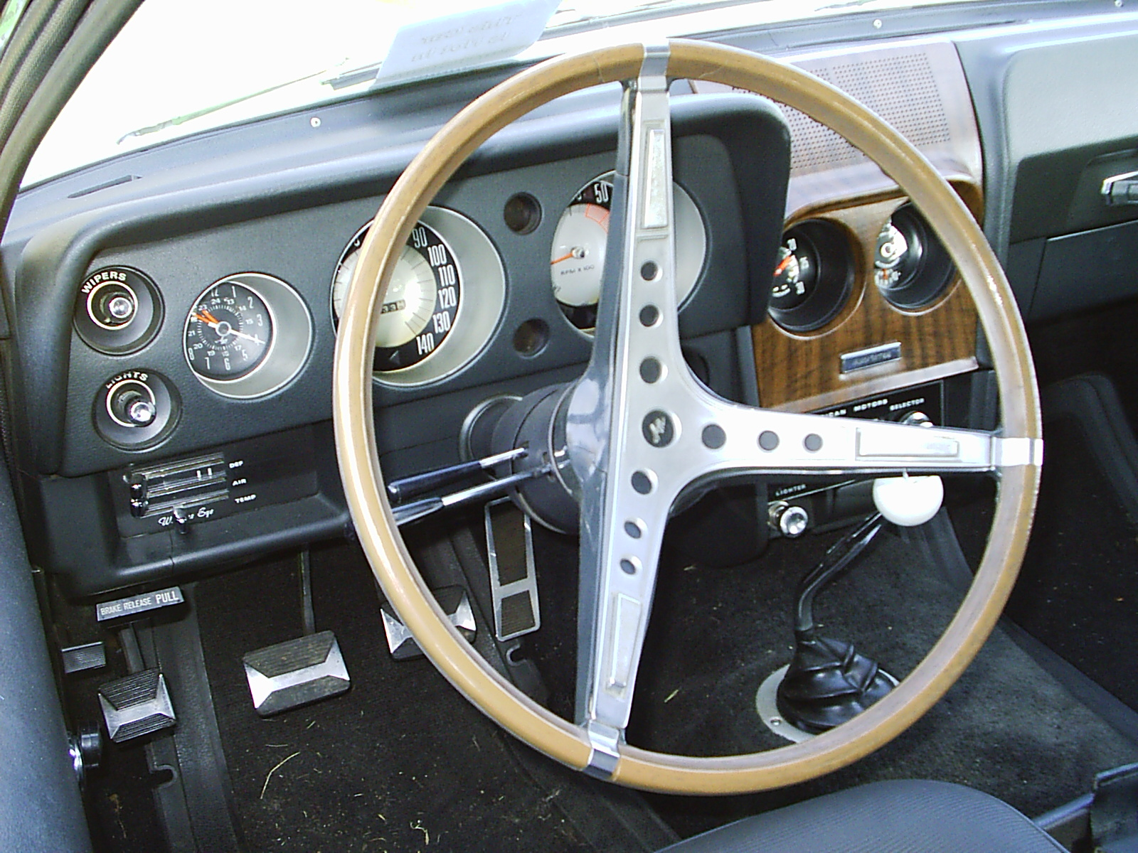 1969 AMX by American Motors Corporation (AMC) two-seat sport coupe. Interior dashboard view. Standard four-speed manual transmission. This car has the optional rally pack instruments (in center panel) and adjustable-tilt steering column with the standard wood-grained wheel.